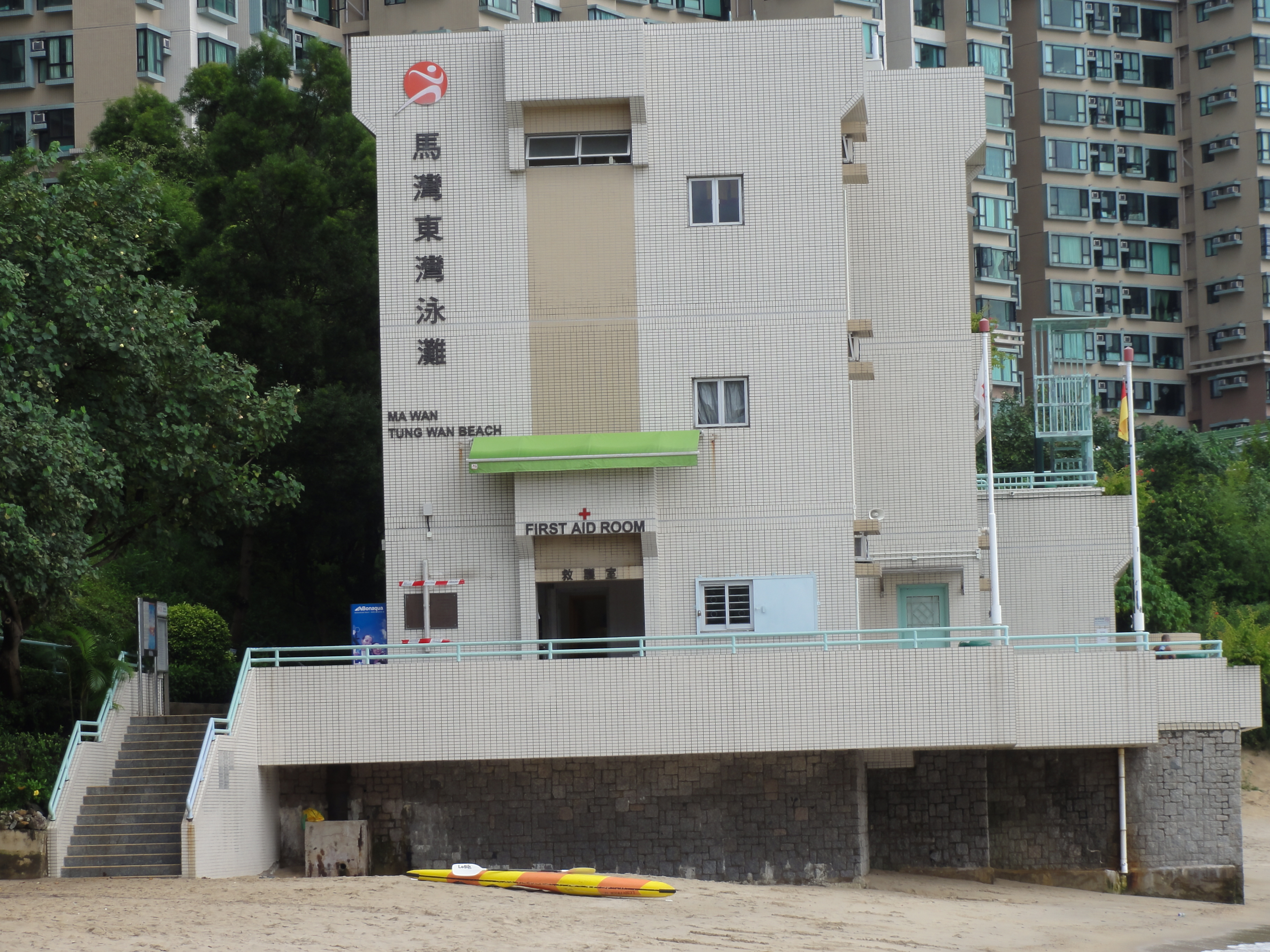 Park Island HK